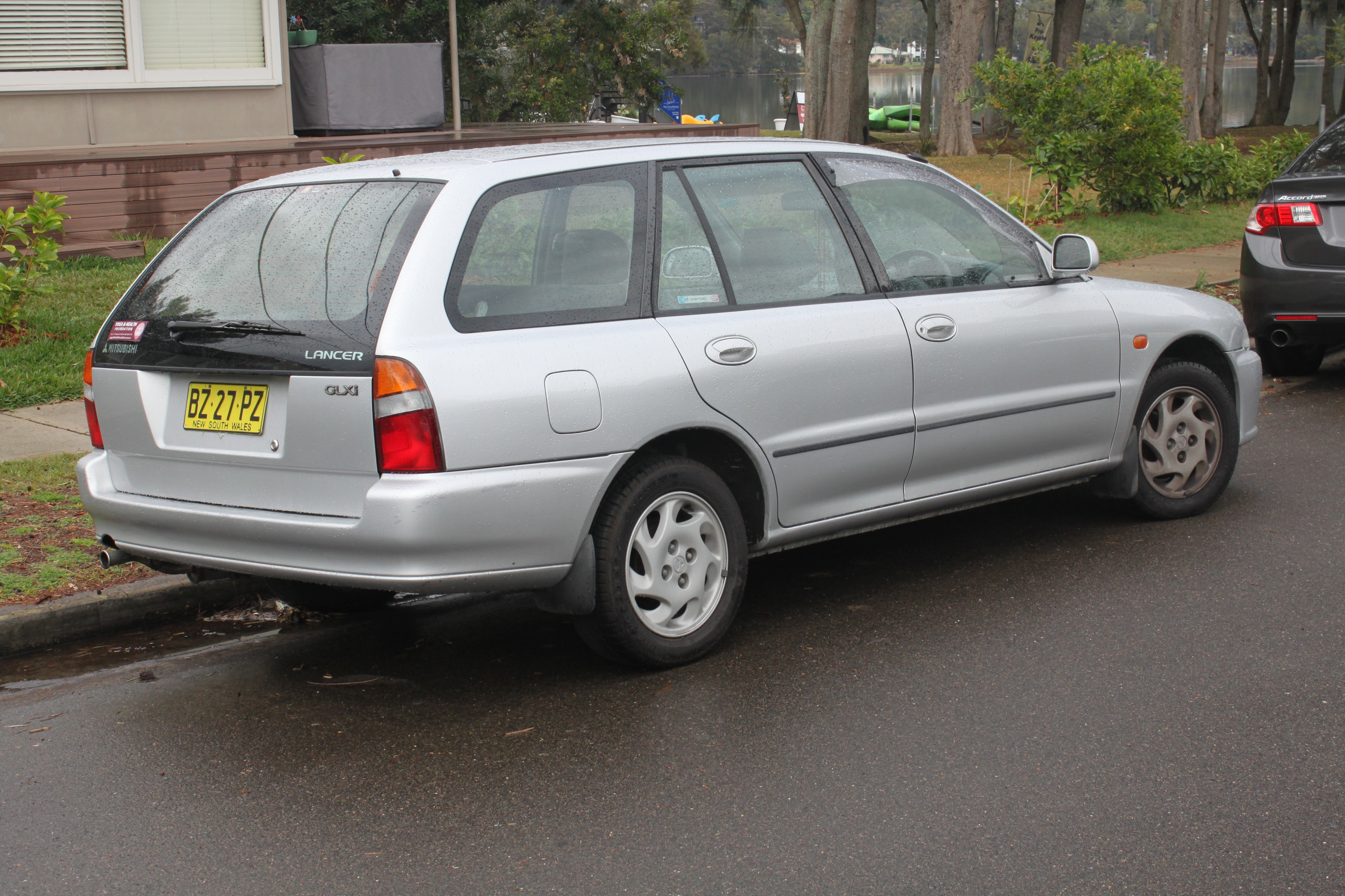 Mitsubishi Lancer CE GLXi Wagon